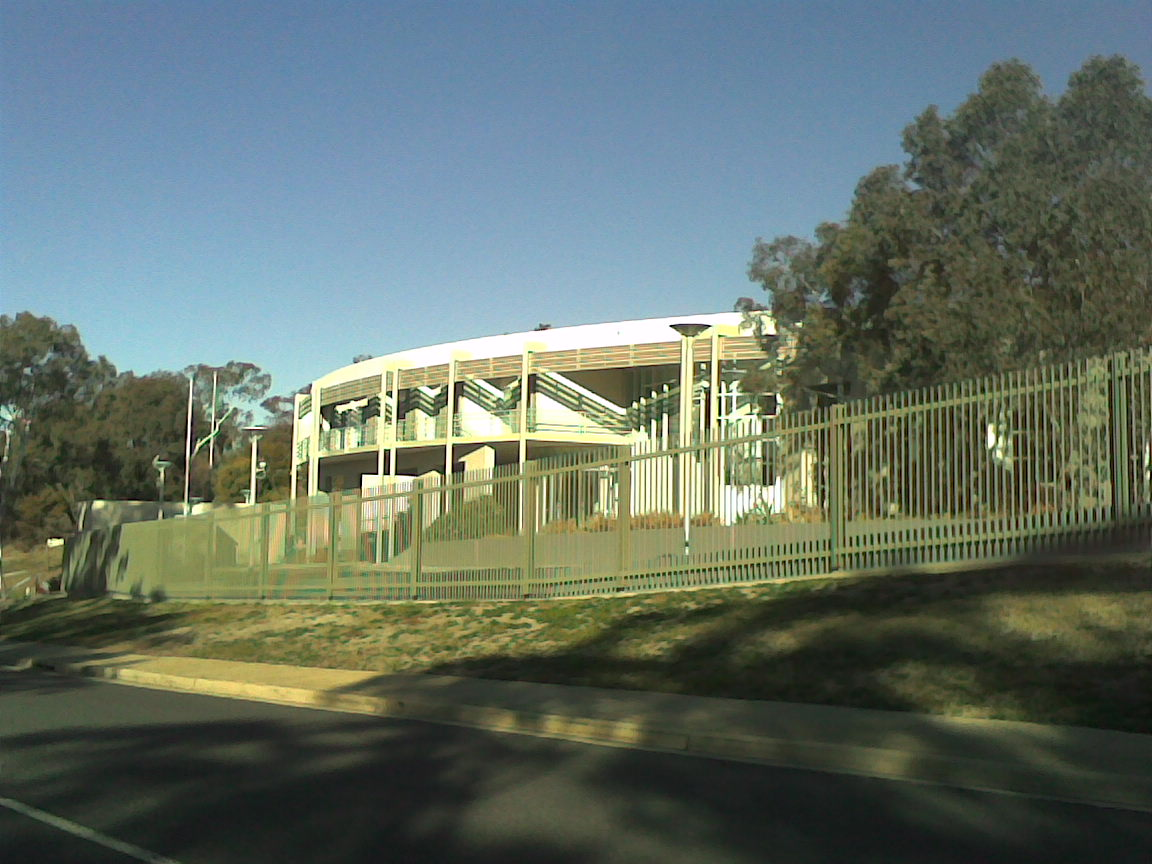 High Commission of Singapore in Canberra, Australia